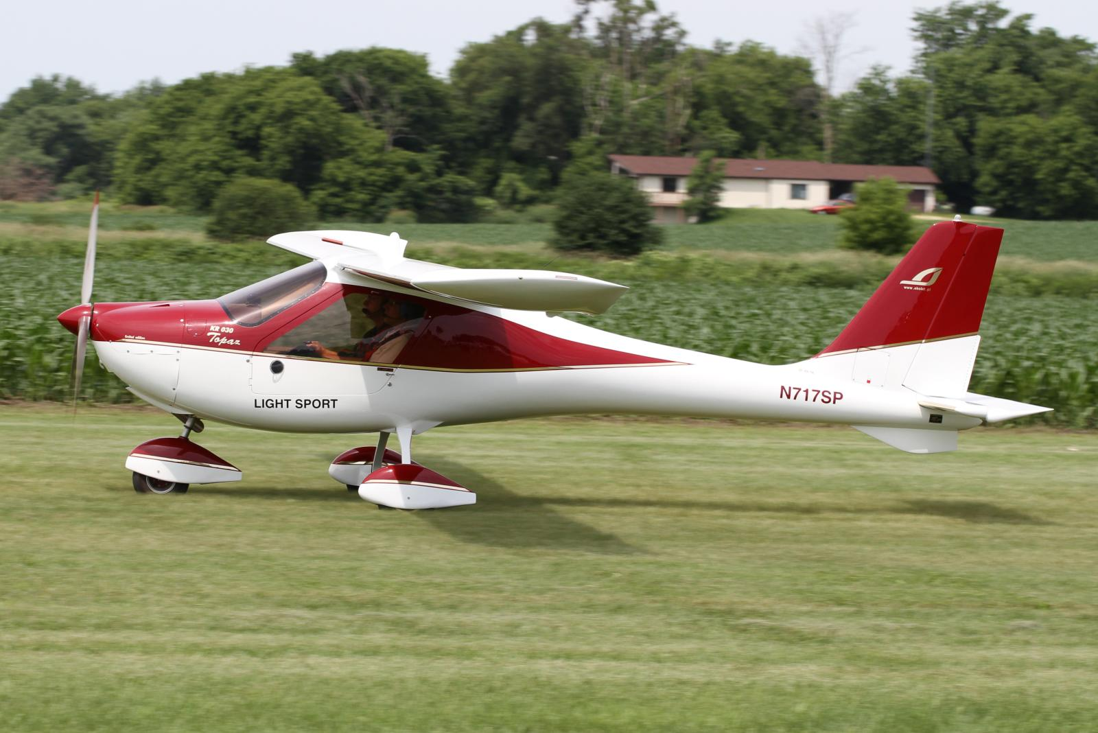 Pphu Ekolot KR-030 TOPAZ C/N 30/03/10; Big Foot Fly-In, Walworth, Wisconsin, June 25th 2011